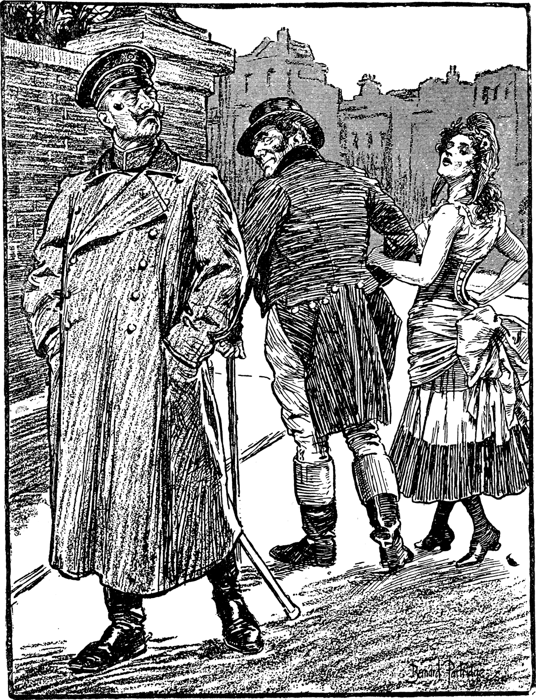 A cartoon apparently expressing a rather sour German point of view on the British-French "Entente Cordiale" of 1904 -- John Bull (the United Kingdom) walks off with the trollop France (Marianne, in her scandalously short tricolor skirt, whose red and blue colors are indicated by the conventions of heraldic "hatching"), while Germany (Wilhelm II) pretends not to care.